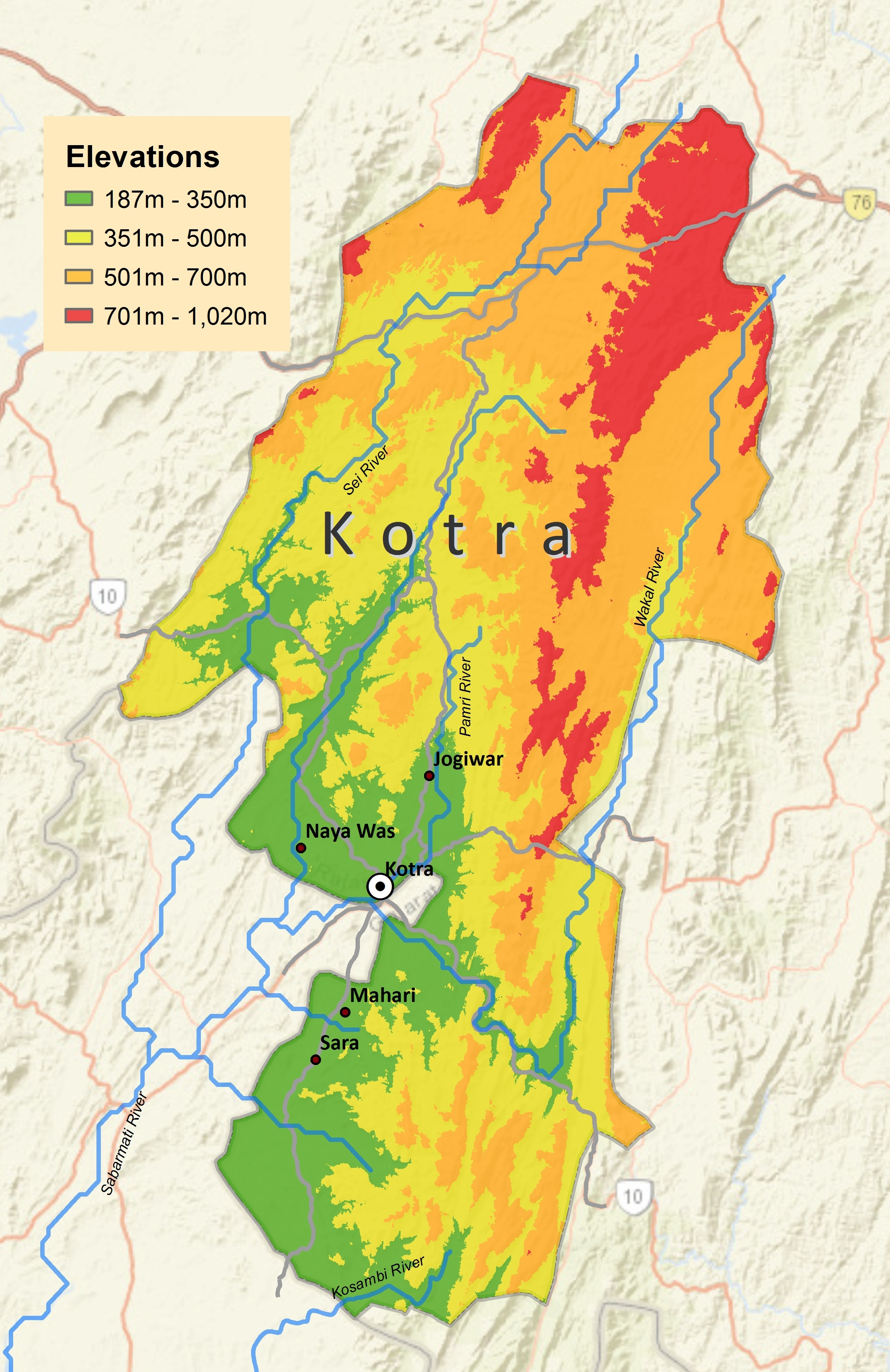 Ground elevations in Kotra tehsil, Udaipur district, Rajasthan (India). Elevations based on Indian Space Research Organizations' CartoDEM database.